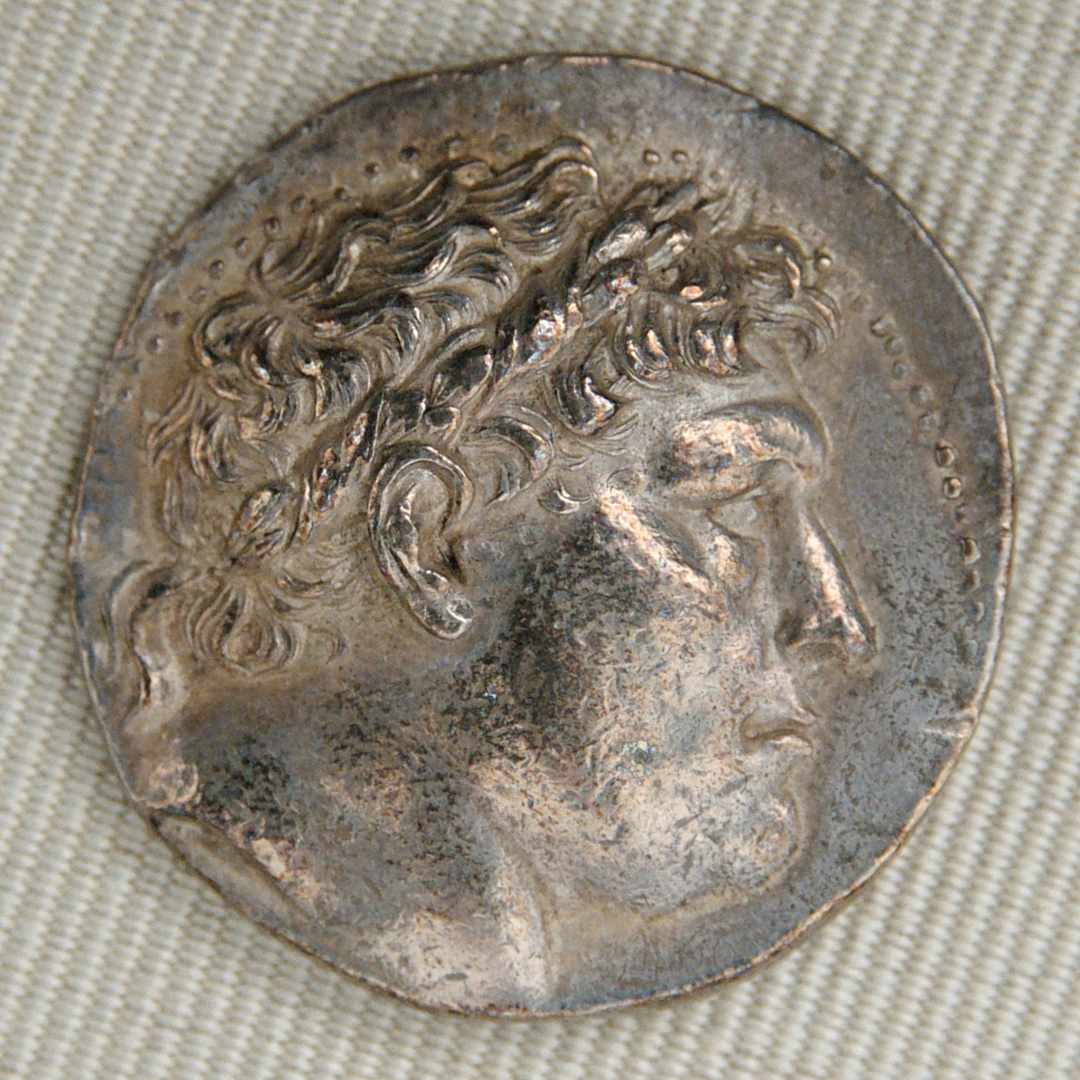 Silver tetradrachm of Eumenes I of Pergamon, obverse: portrait of Philetairos.